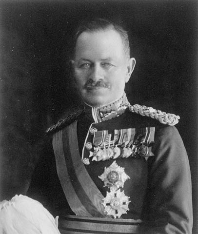 Julian Byng, Viscount Byng of Vimy